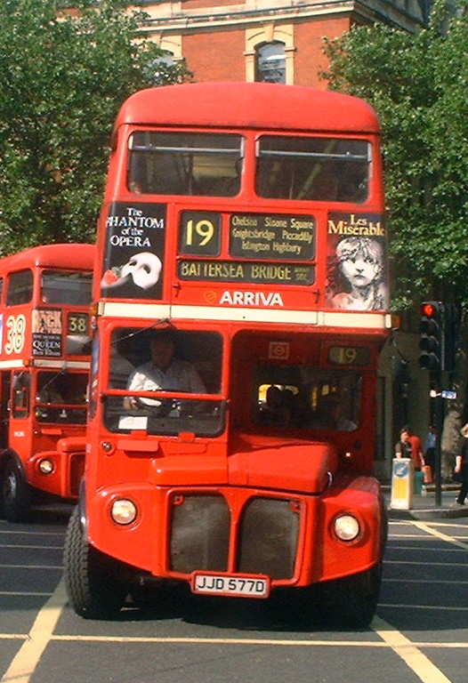 Arriva South London (leased) Routemaster bus RML2577 (reg. JJD 577D) operating route 19 en route to Battersea Bridge, turning right from Charing Cross Road into Shaftesbury Avenue.